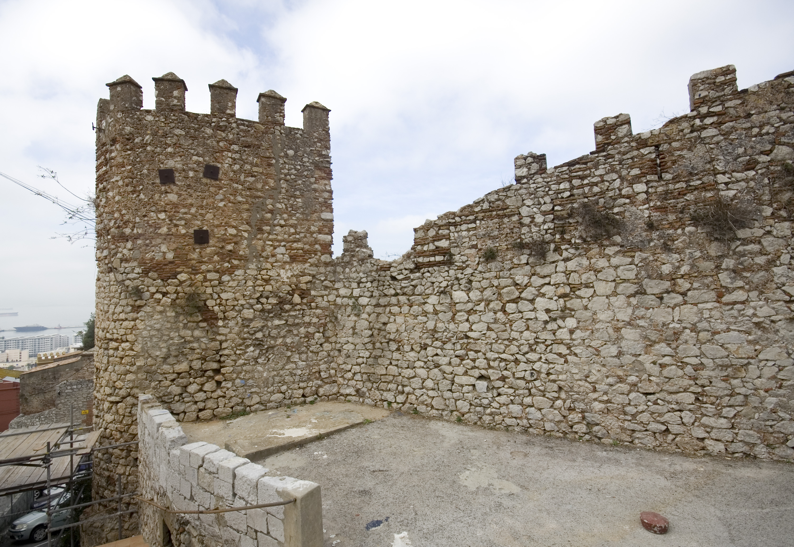 A Moorish tower constructed en bec in the Moorish Castle, Gibraltar